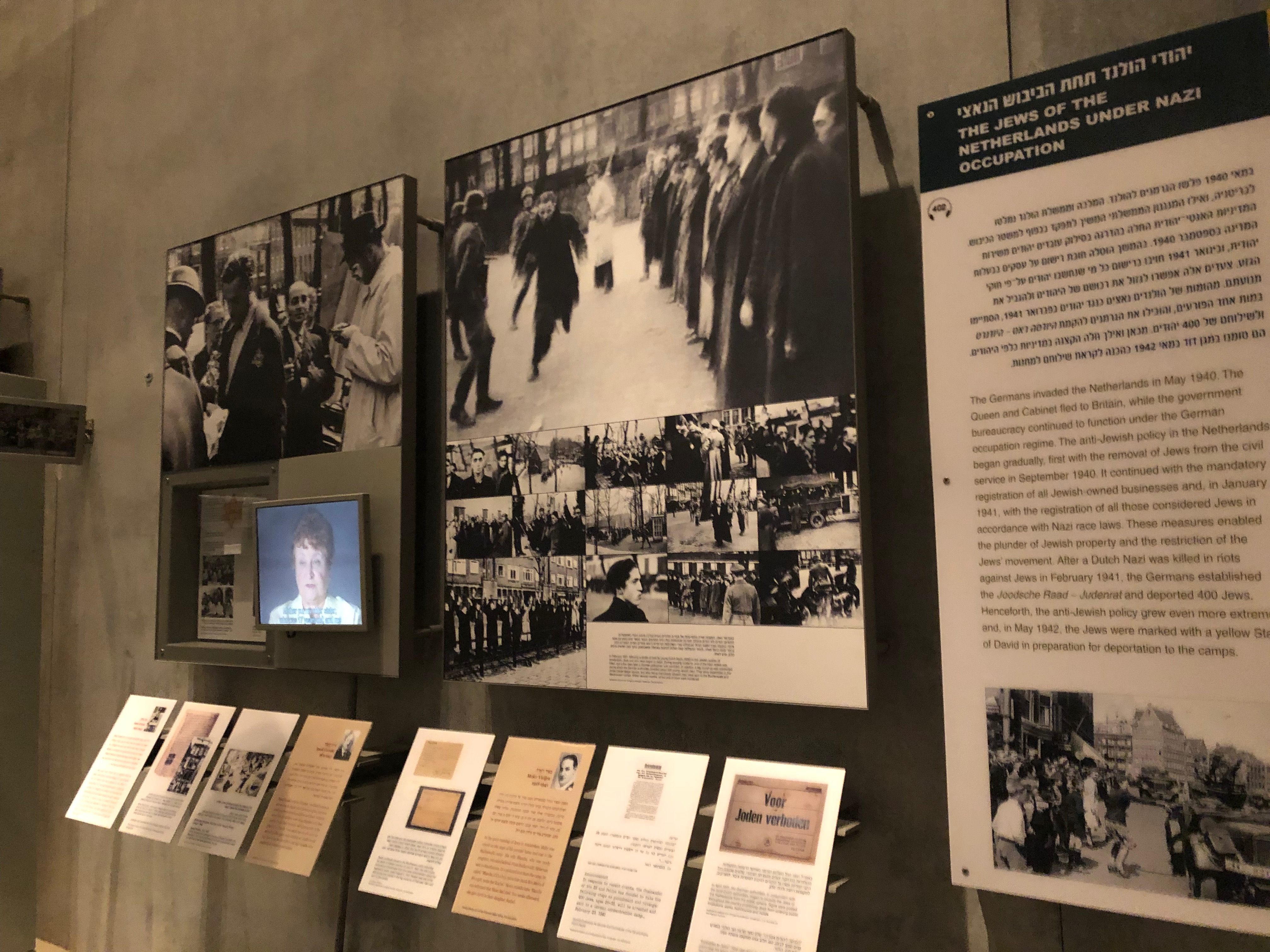 Exhibition Yad Vashem